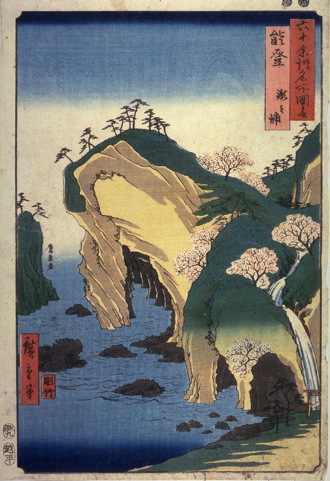 Noto Taki-no-ura of the Famous Scenes of the Sixty States.